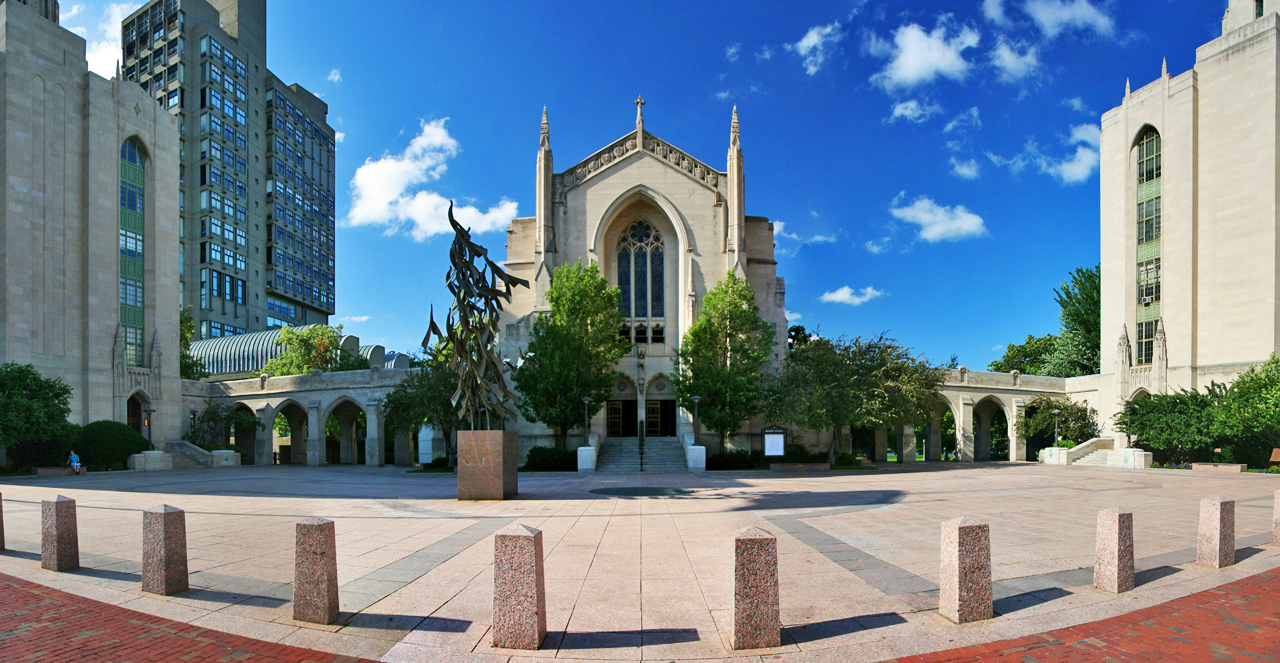 A panorama of Marsh Plaza at Boston University.